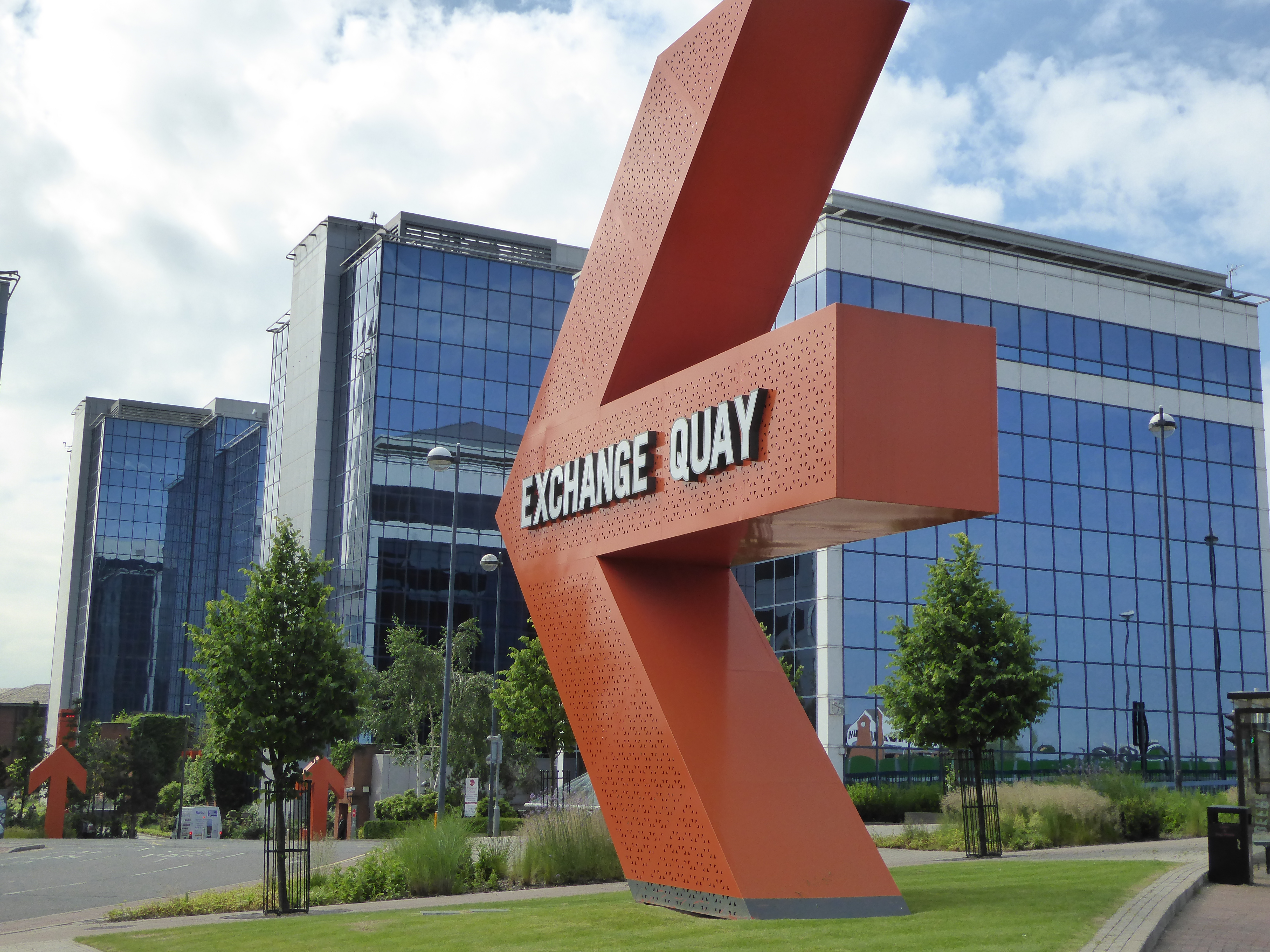 Exchange Quay, Salford, Greater Manchester, England, June 2016